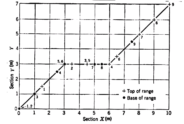 Ideal LOC